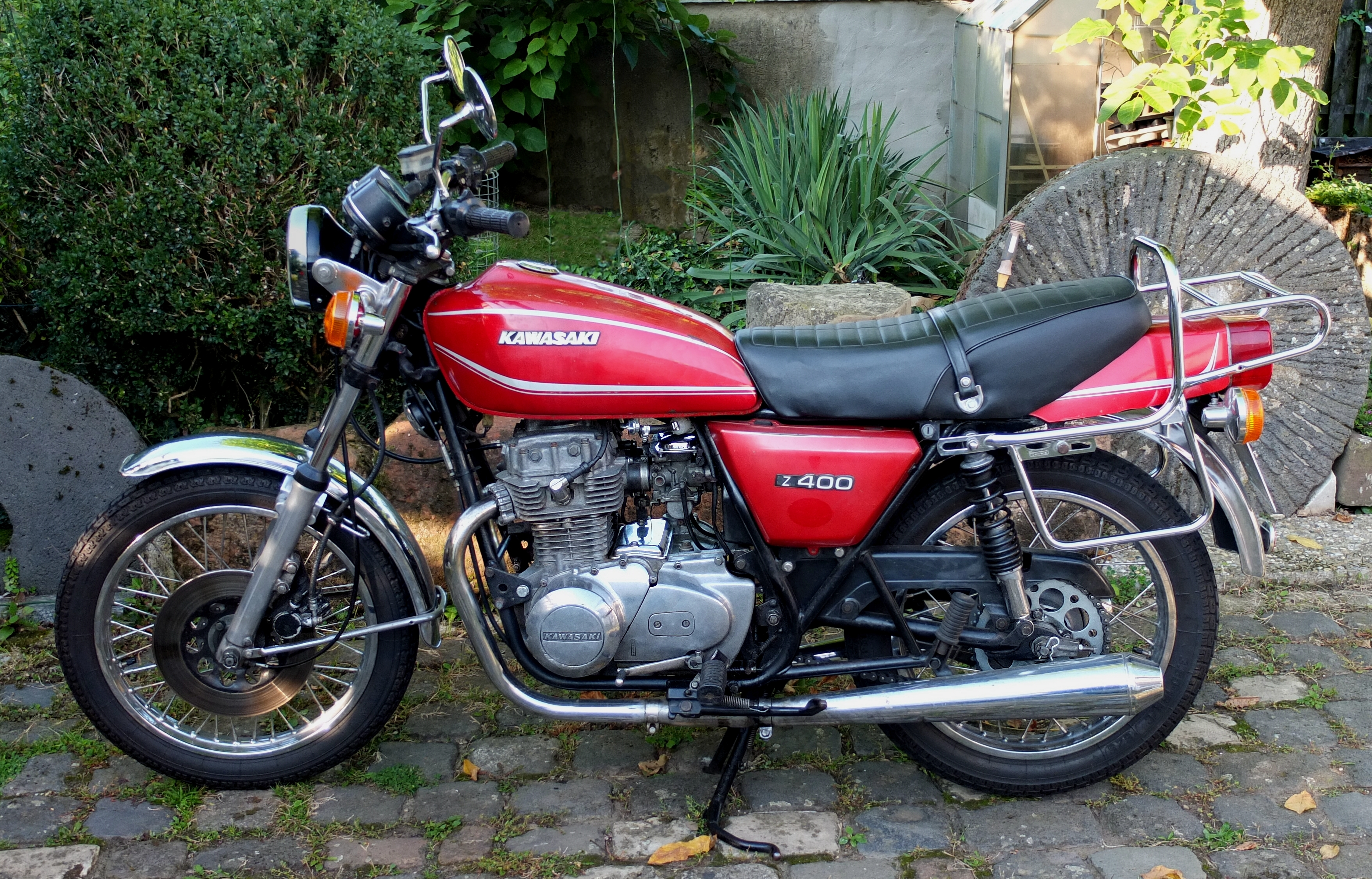 Kawasaki Z400 B 1 (1978)